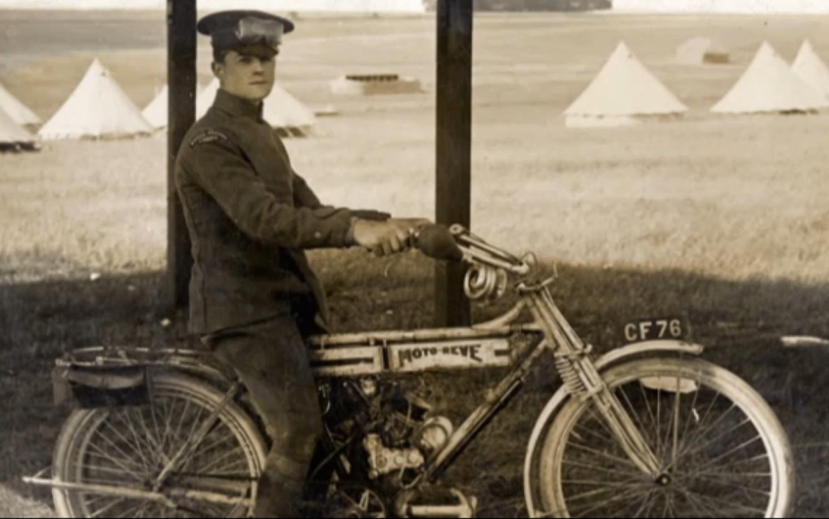 James McCudden